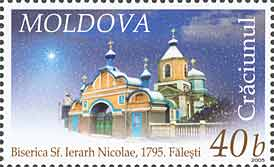 Stamp of Moldova